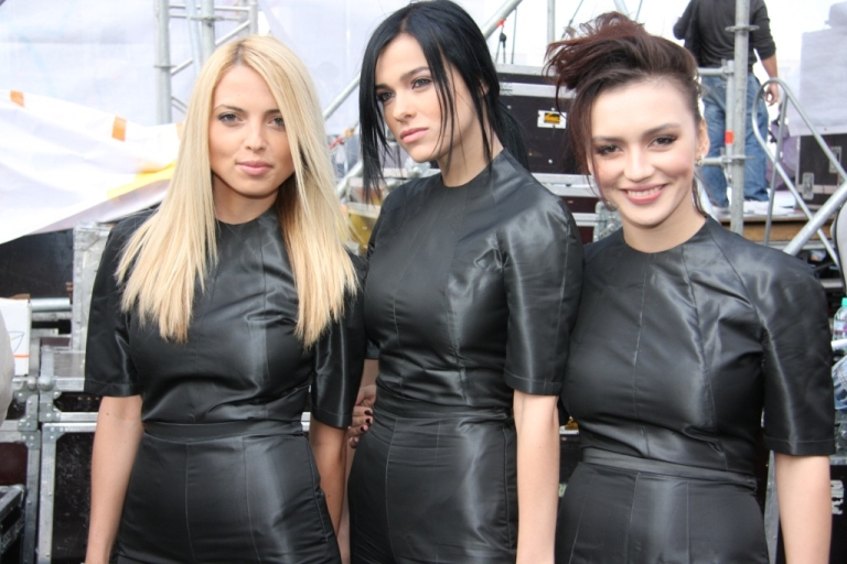 MTV Open Air 2010